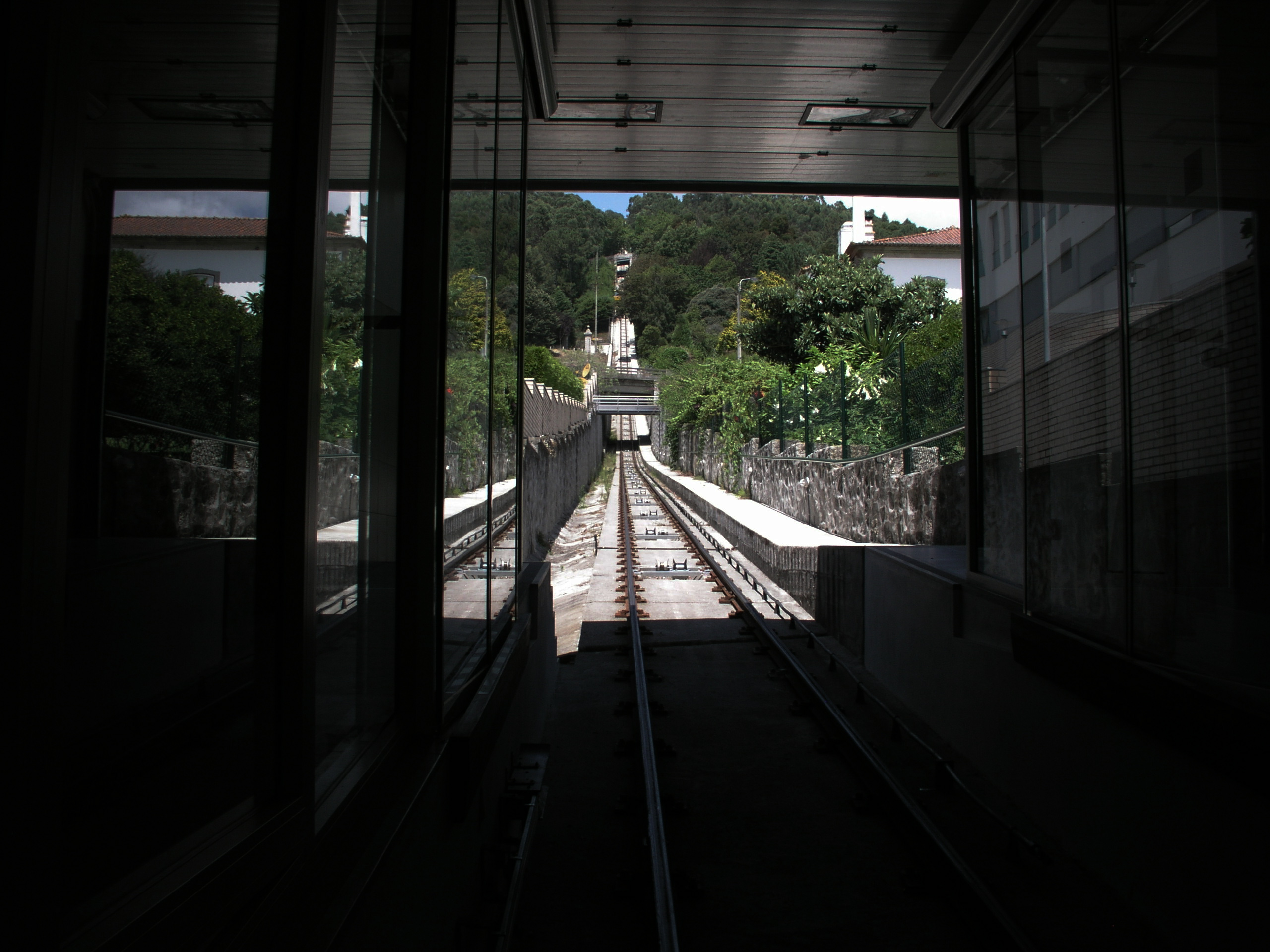 Funicular up to tempel of Santa Luzia, Viana do Castelo, Portugal